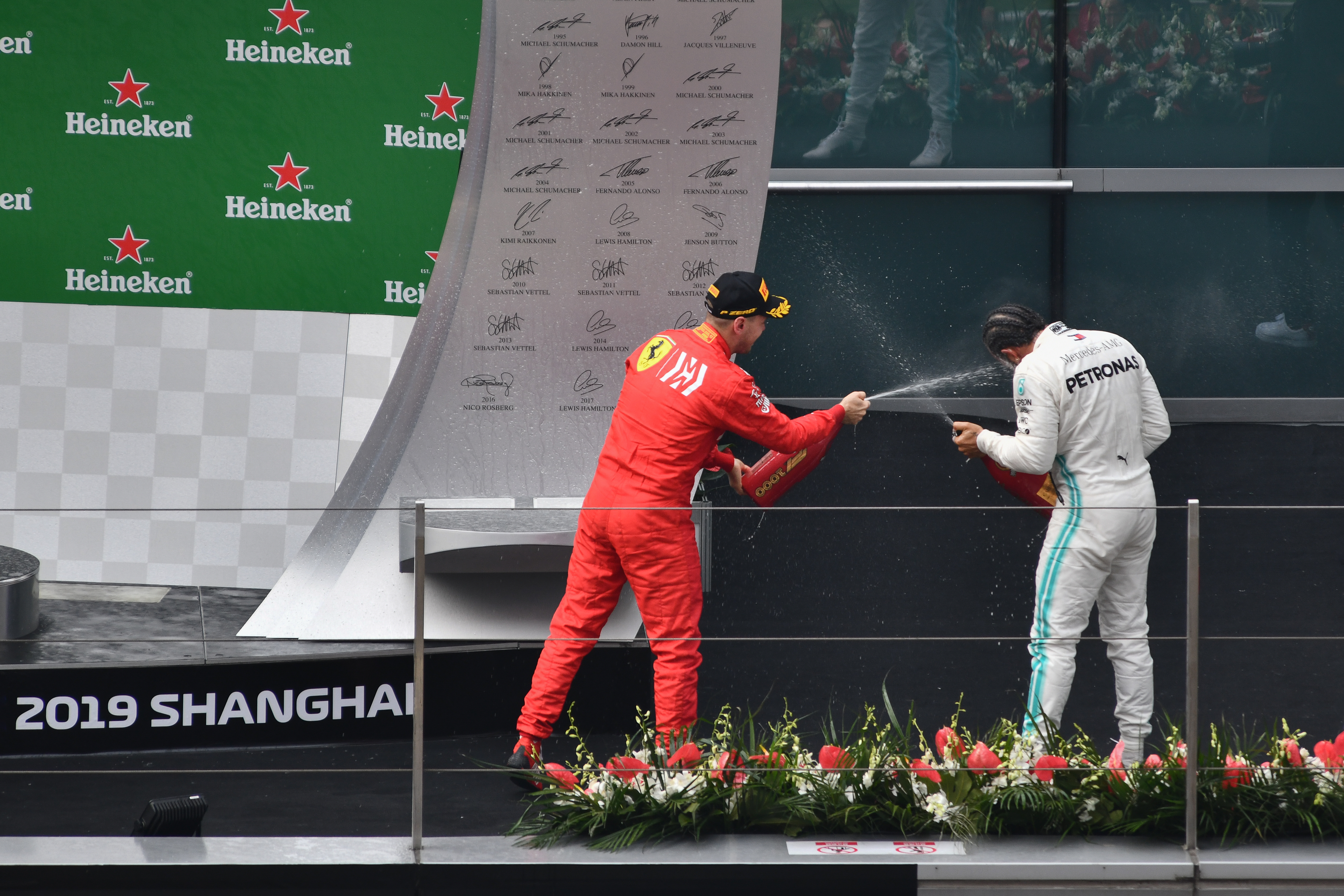 2019 Chinese Grand Prix podium.